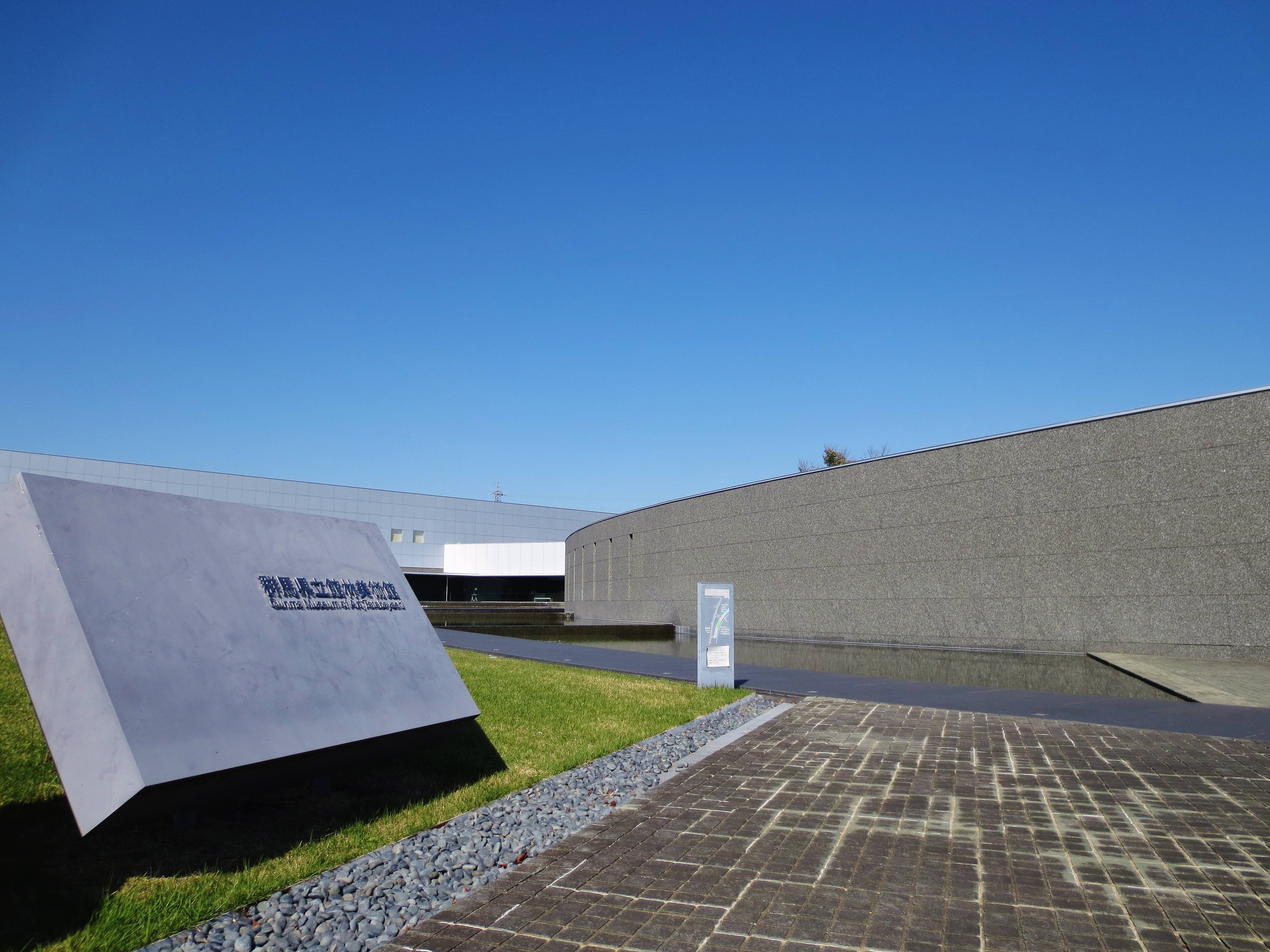 Gunma Museum of Art, Tatebayashi.